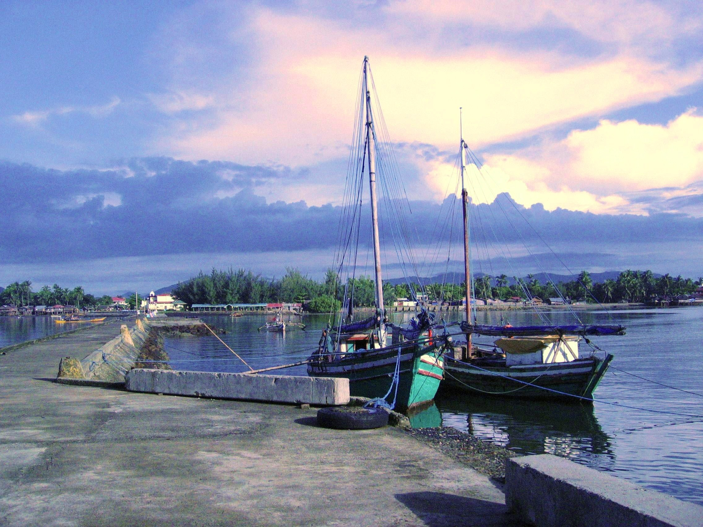 Wharf of Banate.